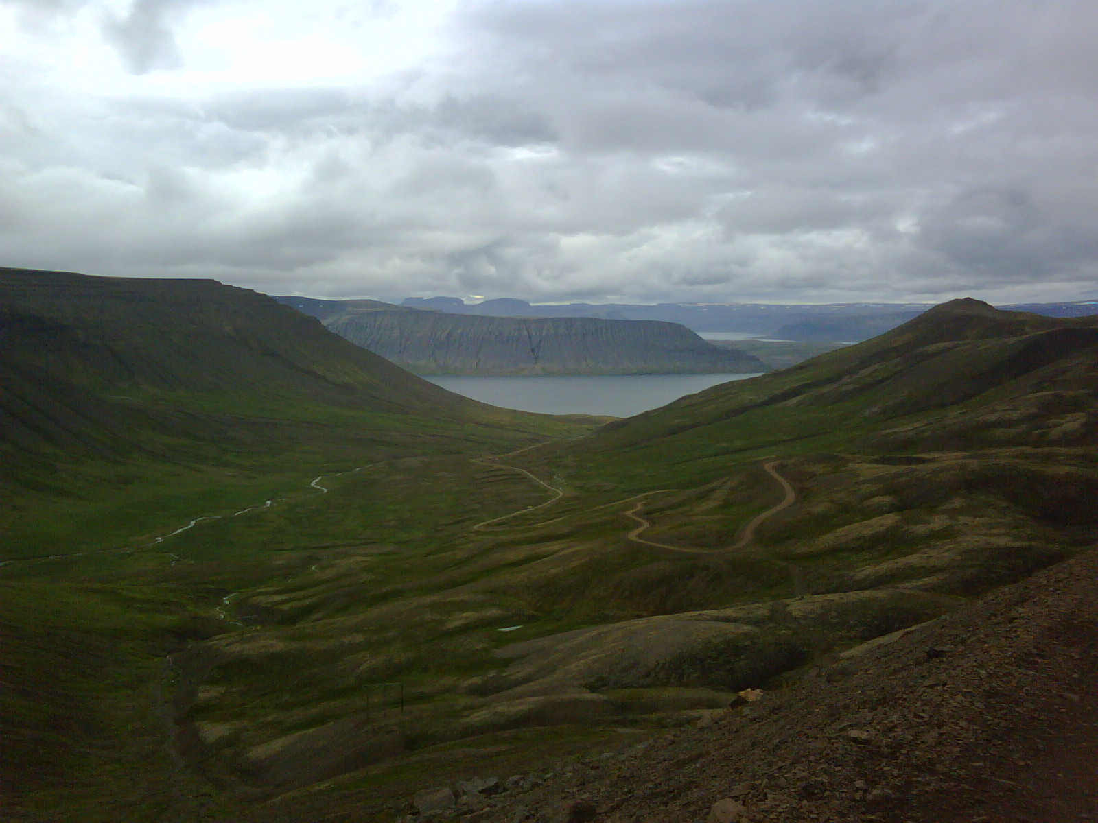 Road 60